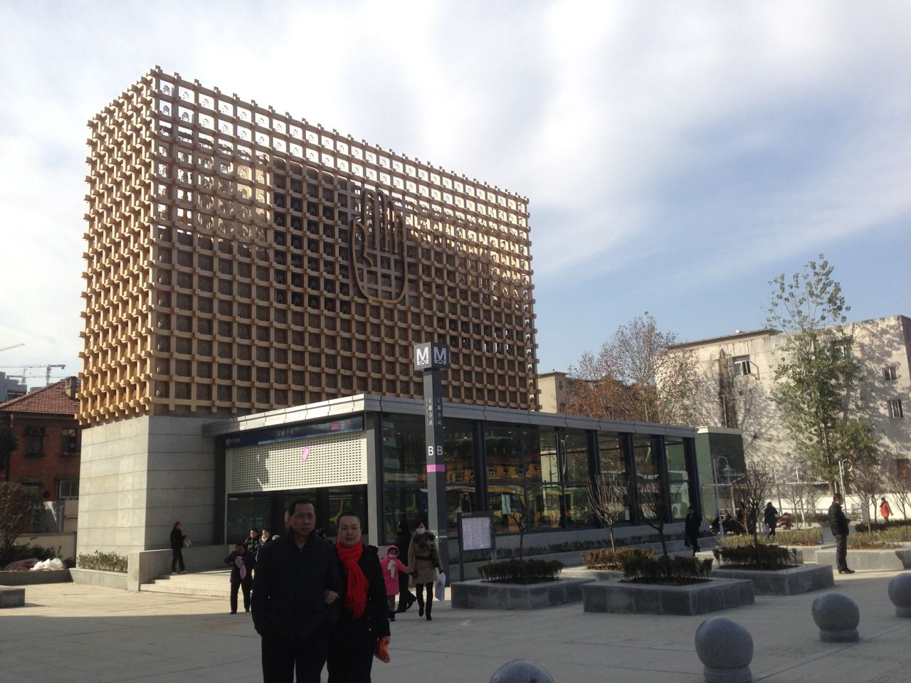 Baotong Temple's Entrance B